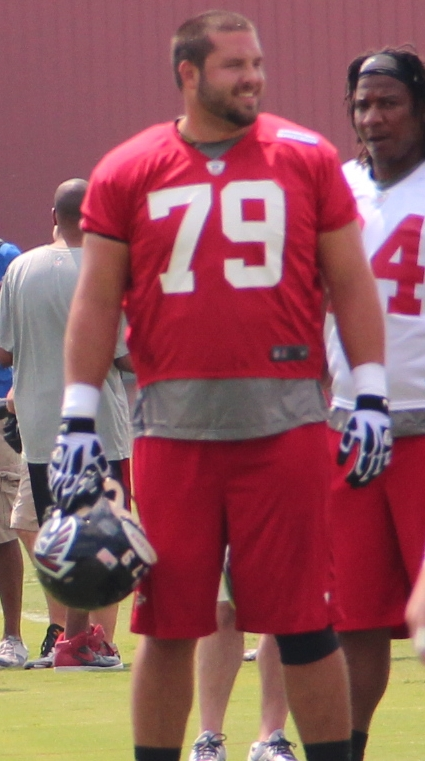 Mike Johnson at Falcons training camp, 2013